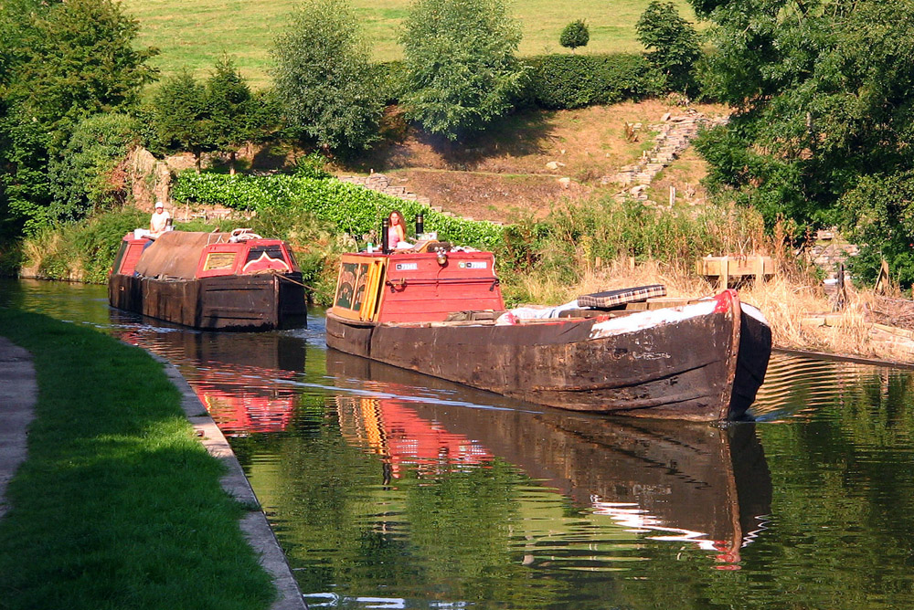 Historic working narrowboats on the Macclesfield Canal in Cheshire, England. The motor boat at the front "Forget Me Not" is pulling along an unpowered butty "Lilith". This was the traditional working style used on working boats after motor boats became common. The boats are owned by the Wooden Canal Boat Society.